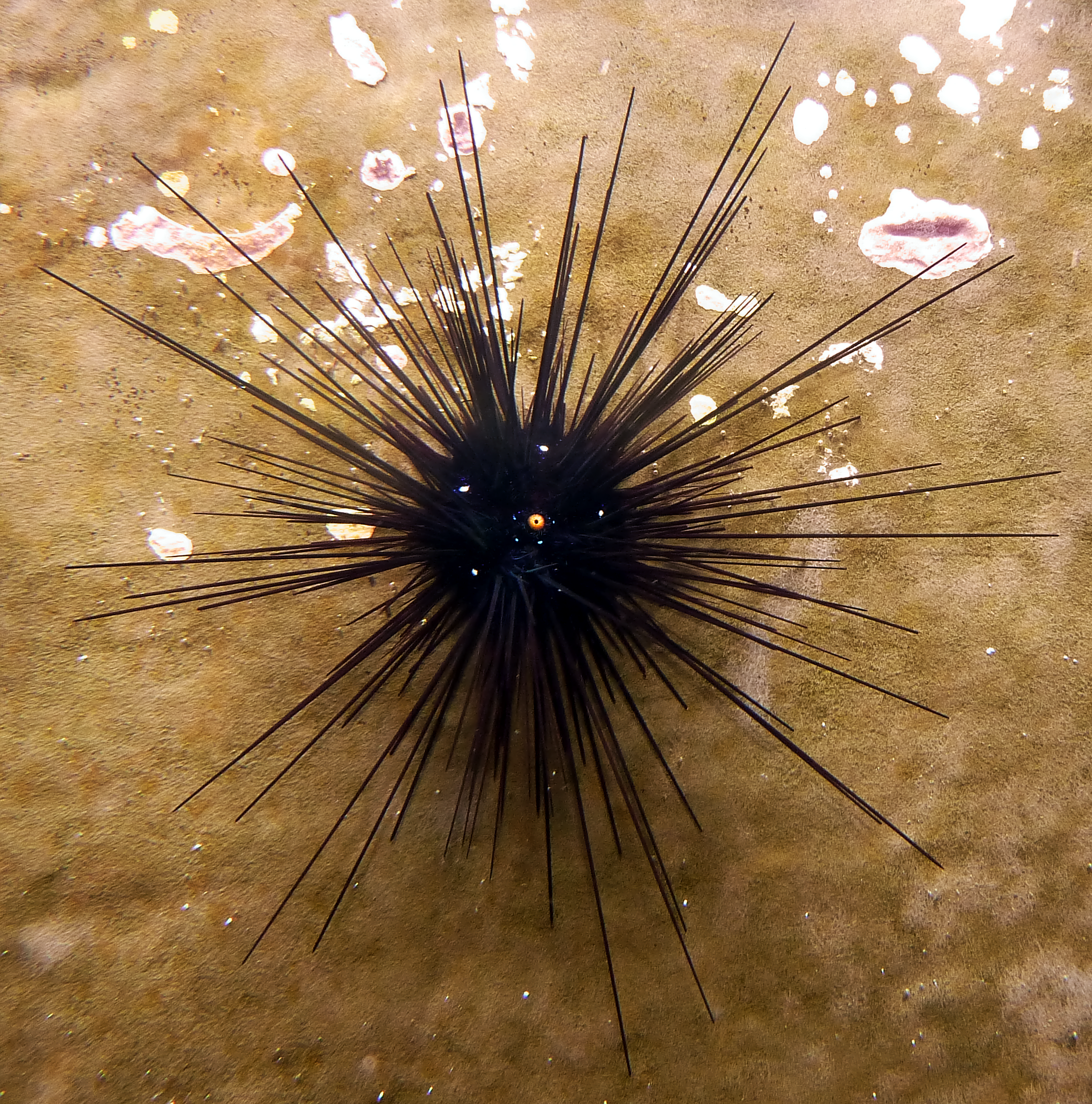 Diadema setosum at the Aquazoo – Löbbecke Museum aquarium, Düsseldorf.